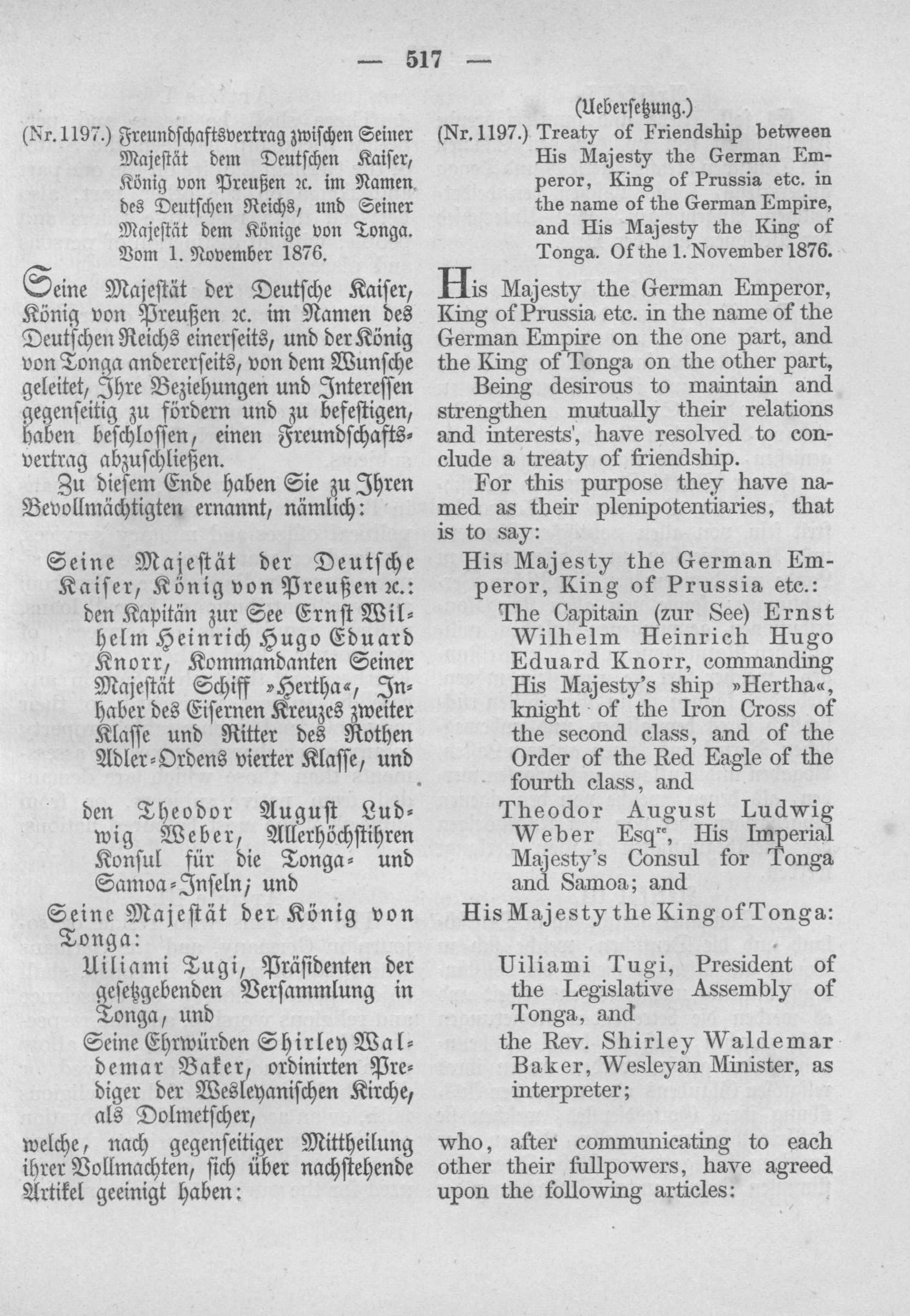 Scan from the Imperial Law Gazette of Germany, 1877